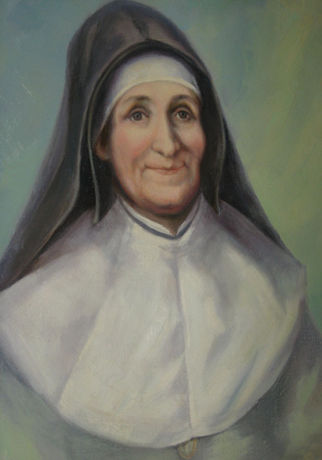 St. Julie Billiart (1751–1816), the spiritual mother of the Sisters of Notre Dame.